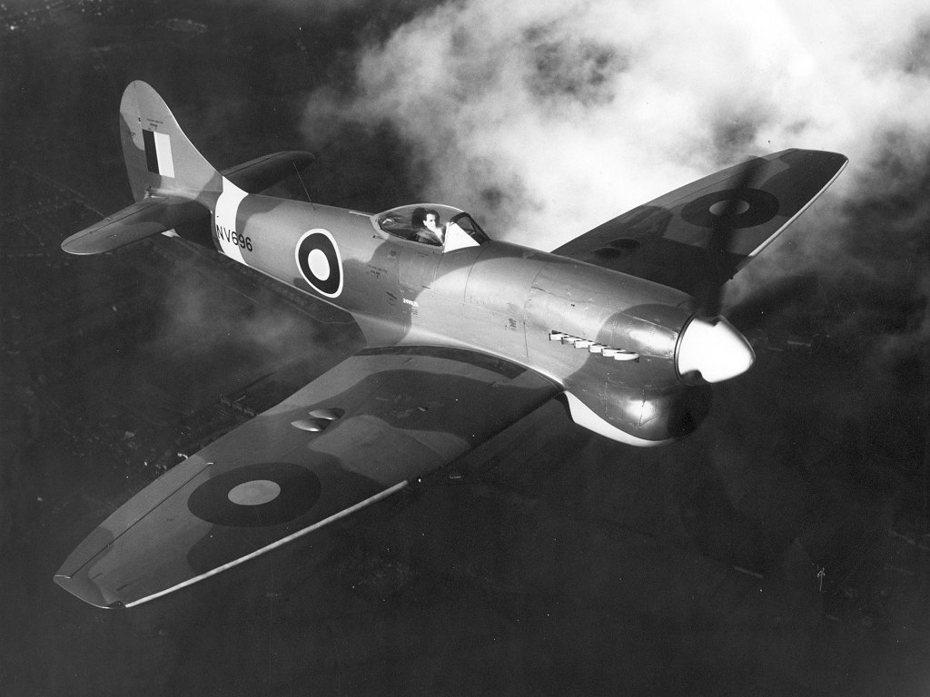 A Royal Air Force Hawker Tempest V Series II (s/n NV696) on a test flight from the Hawker factory Langley, near Slough, on 25 November, 1944. This aircraft went into service with No. 222 Squadron RAF a month later. The aircraft is piloted by William "Bill" Humble, who normally did not wear a helmet.